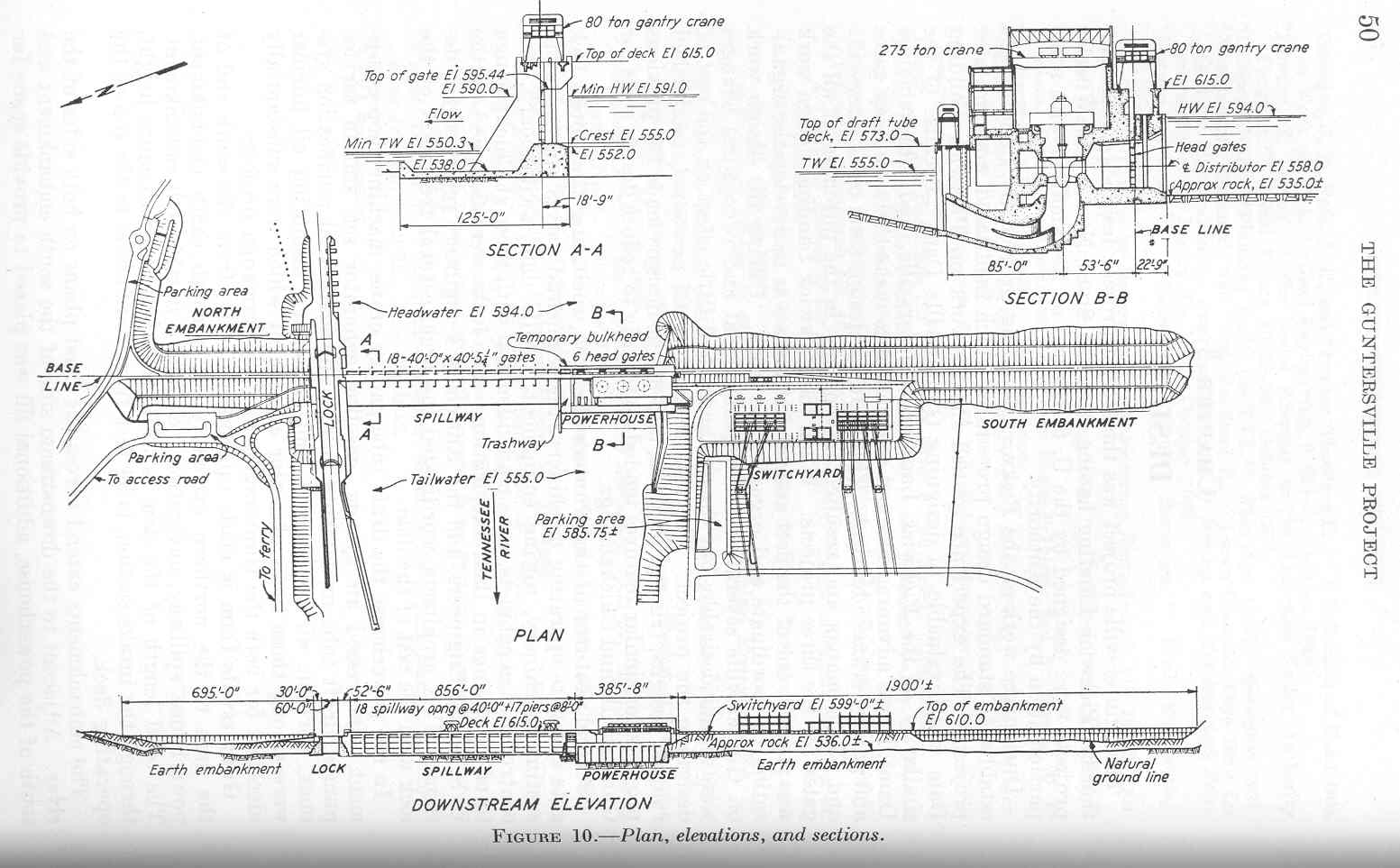 TVA's design plan for Guntersville Dam, on the Tennessee River near Guntersville in the U.S. state of Alabama.